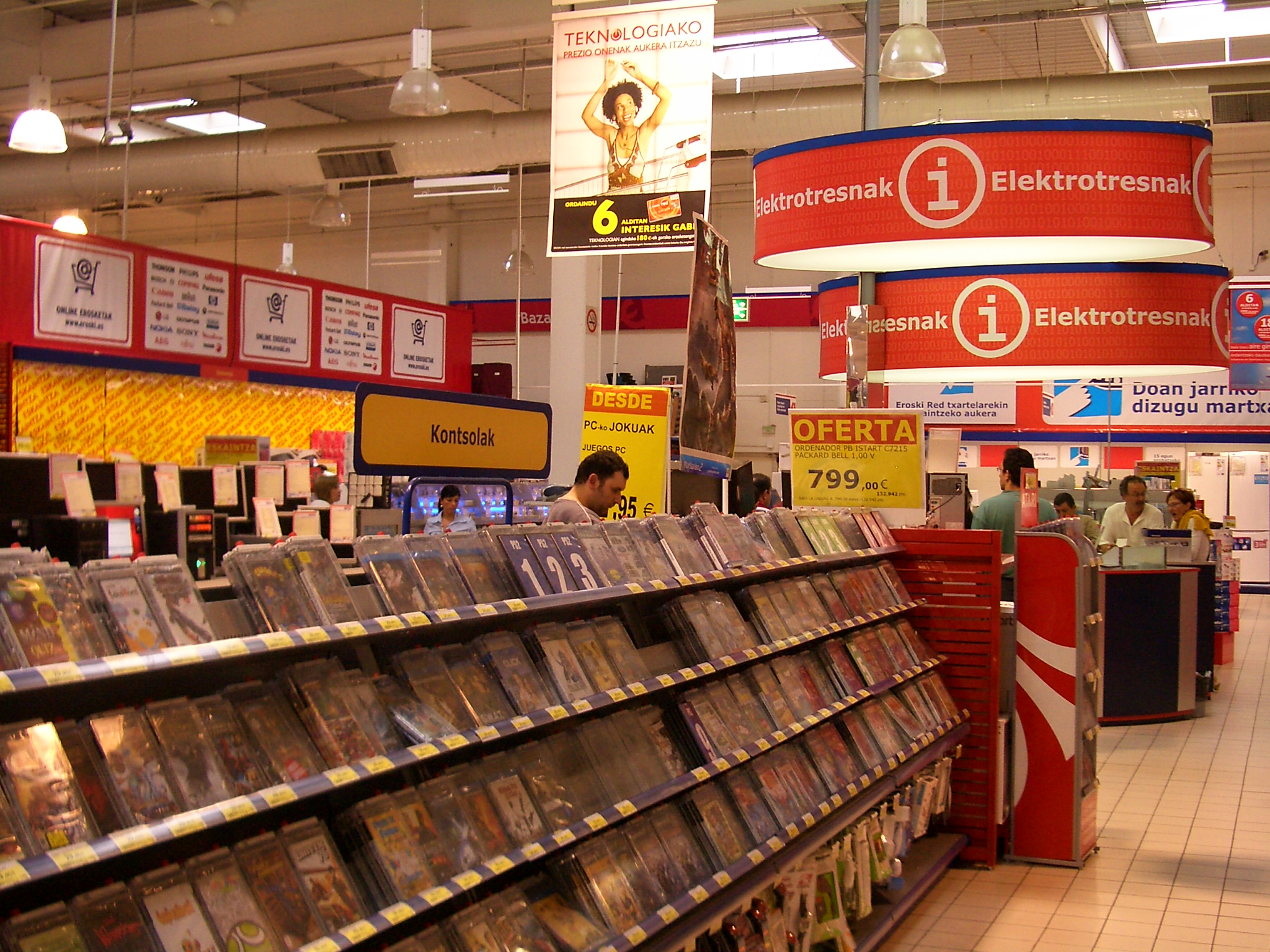 Inside an Eroski hypermarket on the northern outskirts of Arrasate/Mondragon, with a lot of Basque signage inside